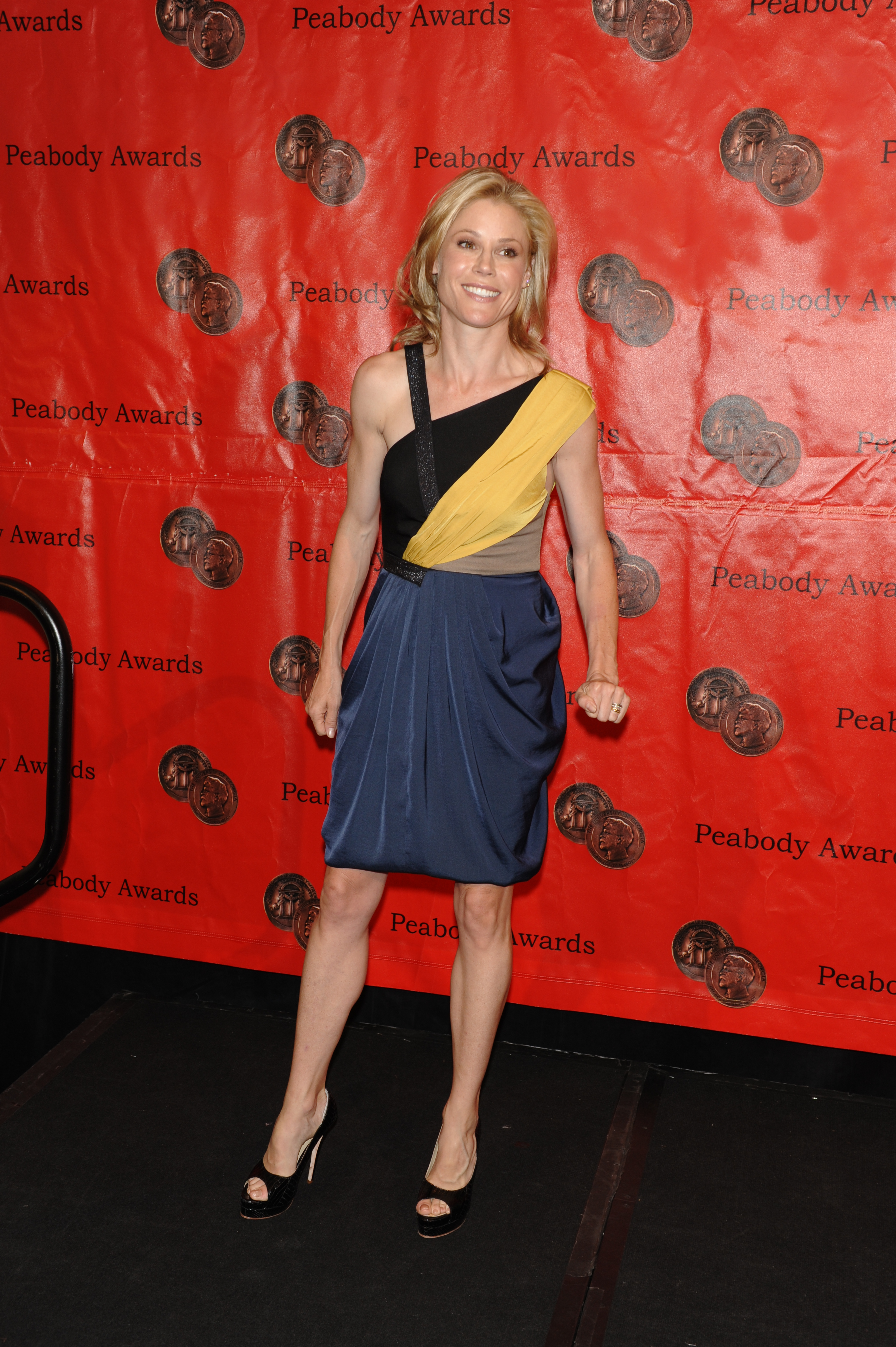 Julie Bowen 69th Annual Peabody Awards Luncheon Waldorf=Astoria Hotel New York, NY USA May 17, 2010